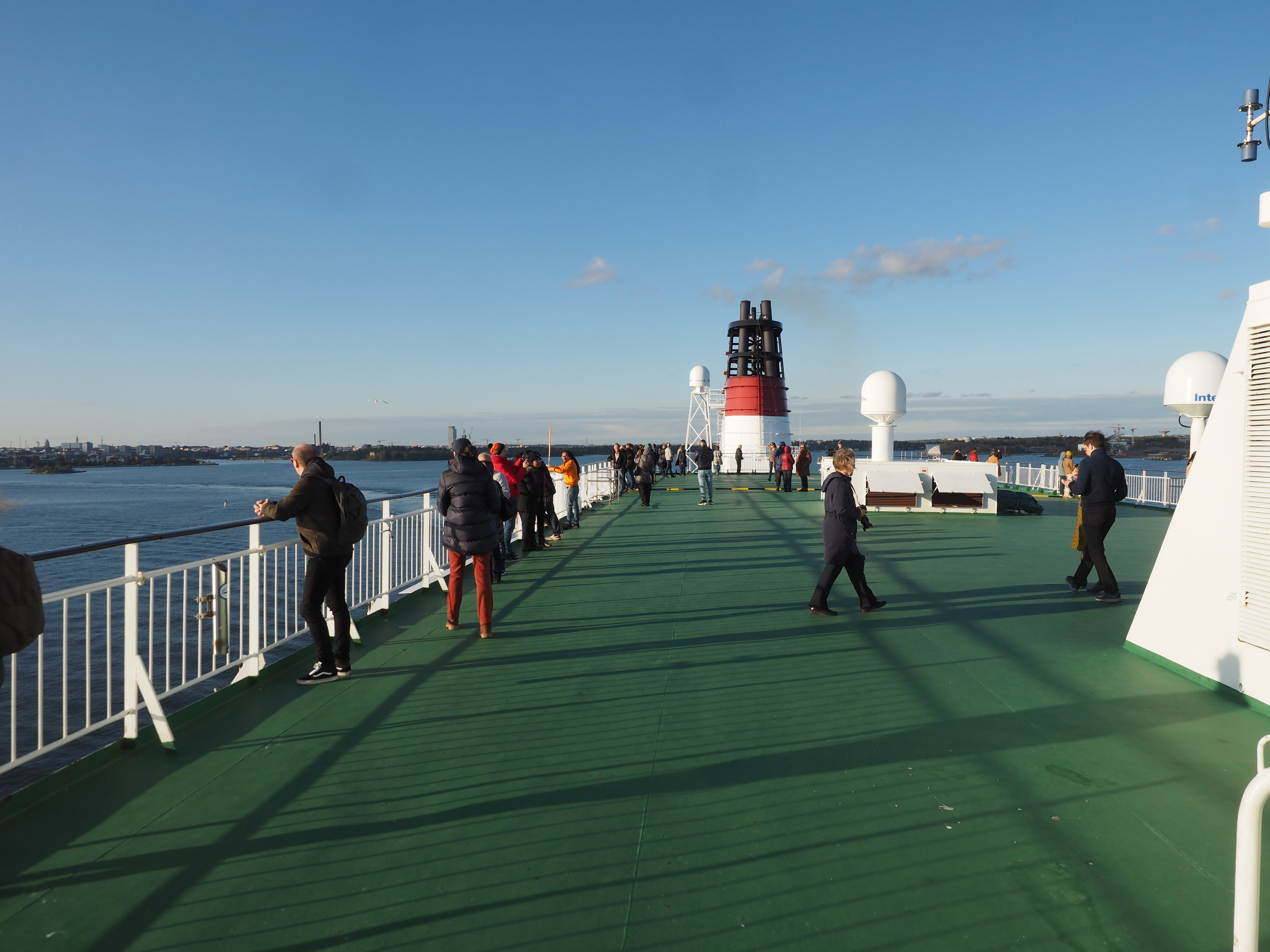 The sun deck (the uppermost deck passengers have access to) of Viking Mariella, straight after leaving from Katajanokka, Helsinki, Finland.